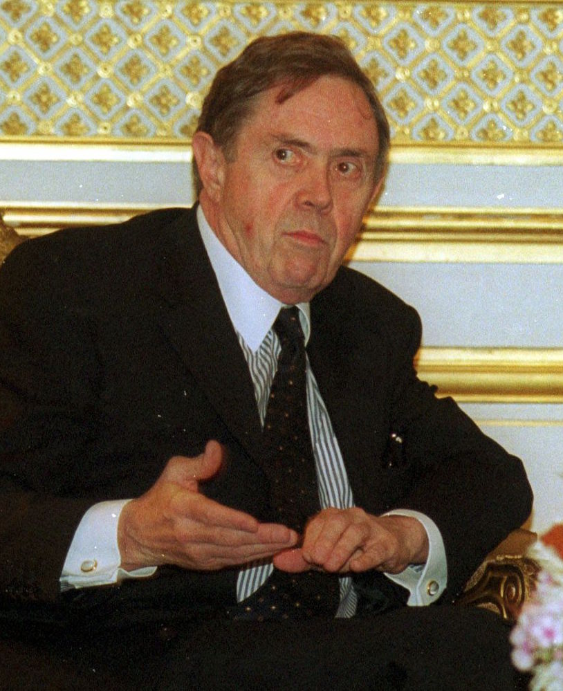 The Honourable Donald J. Johnston, P.C., O.C., Q.C. (pictured on left)